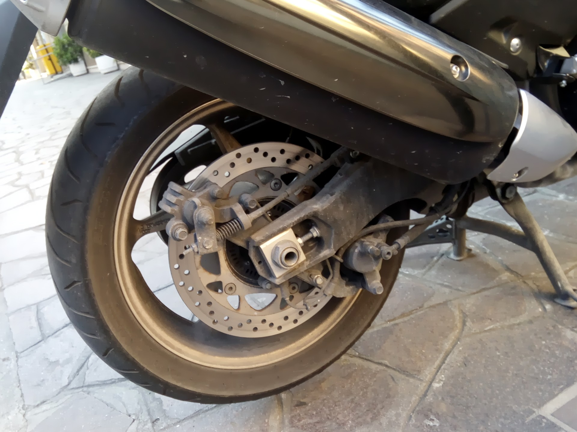 Details rear brakes scooter tmax, where you can see both the brake caliper service that the parking brake caliper